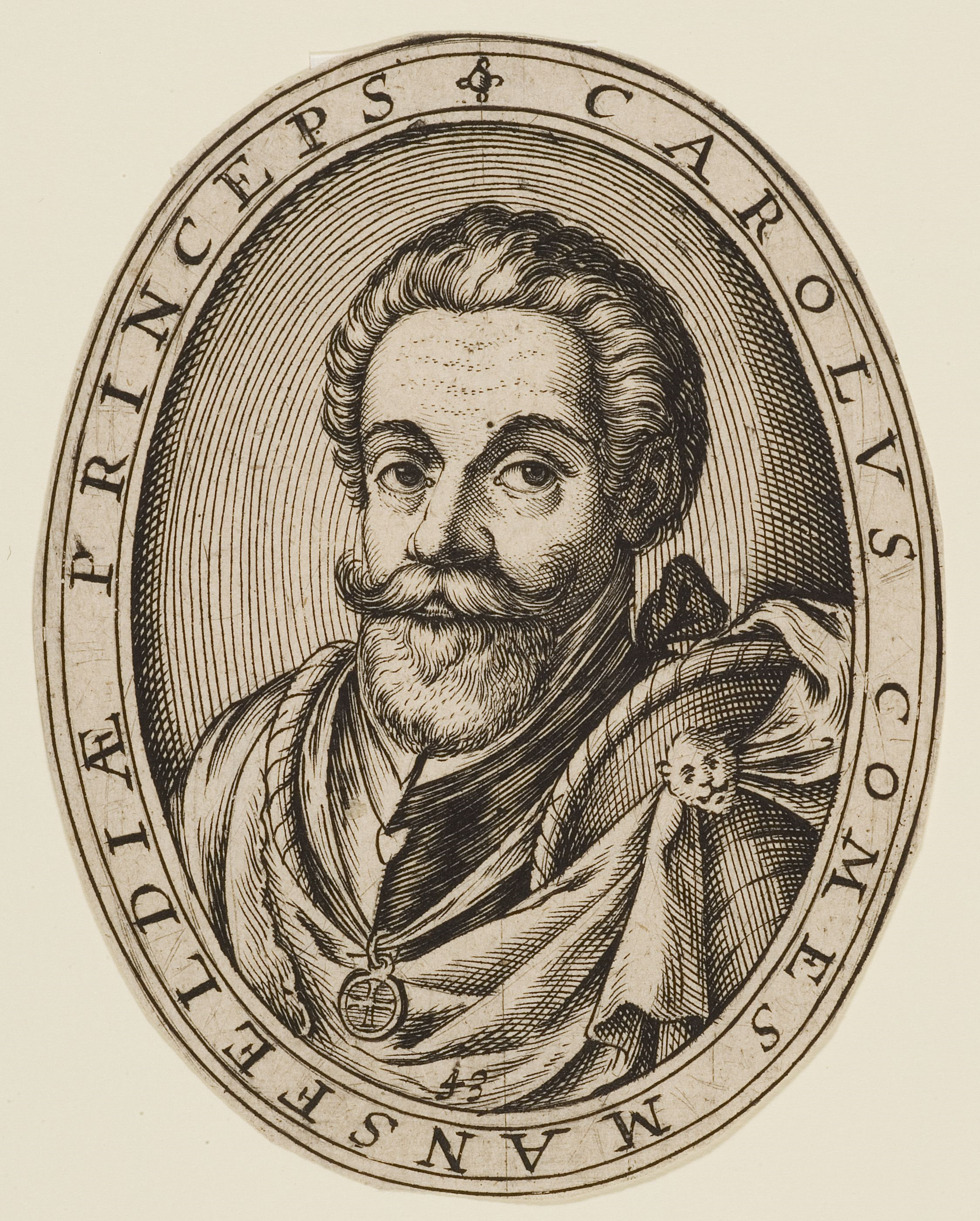 Copper engraving depicting the portrait of Karl von Mansfeld